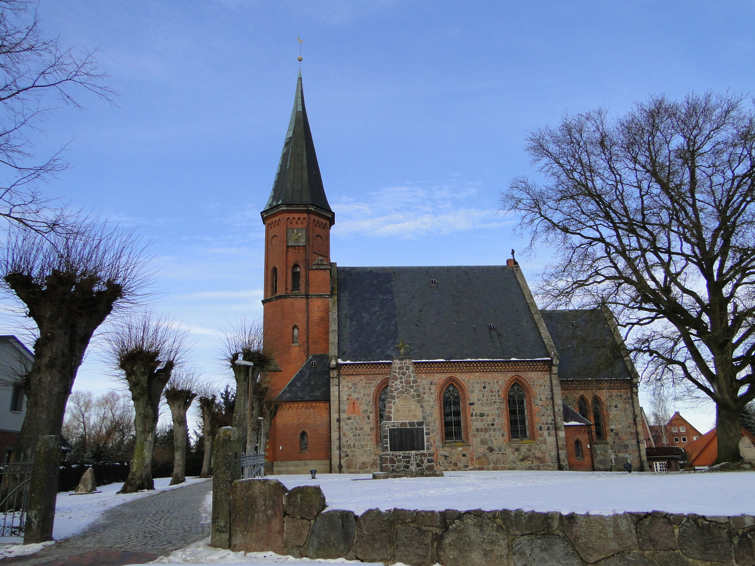 Church in Breitenfelde, district Herzogtum Lauenburg, Schleswig-Holstein, Germany